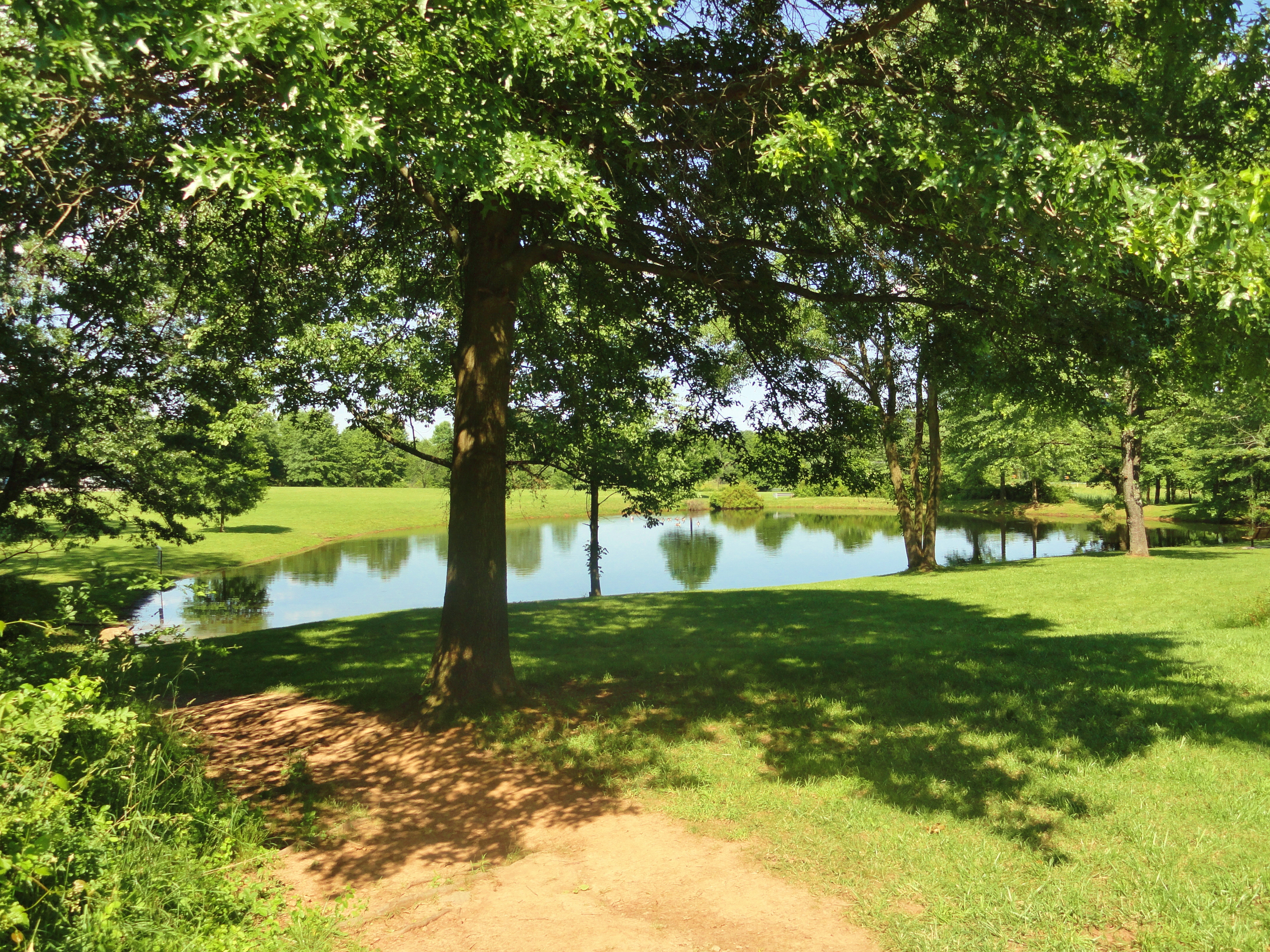 The Sourland Mountain Preserve, Hillsborough, New Jersey, USA June 2012